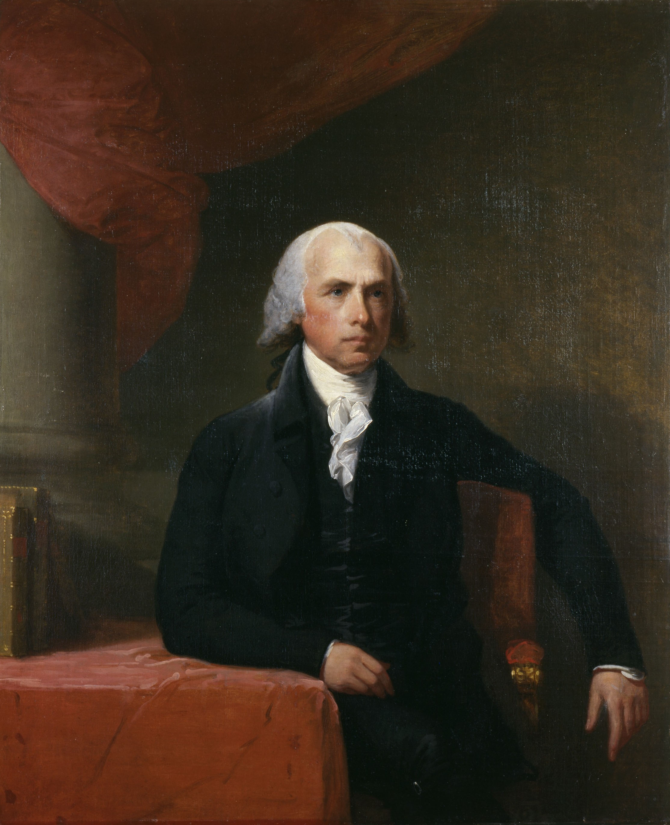 Portrait of James Madison, comissioned by Honorable James Bowdoin III: the oil on canvas painting measures 48 1/2 in. x 39 3/4 in. (123.19 cm x 100.97 cm), and was painted by Gilbert Stuart, who made additional copies after completion of the work.[1] Painting was published on p. 223 of Sea Power in Its Relations to the War of 1812 in 1905.[2]